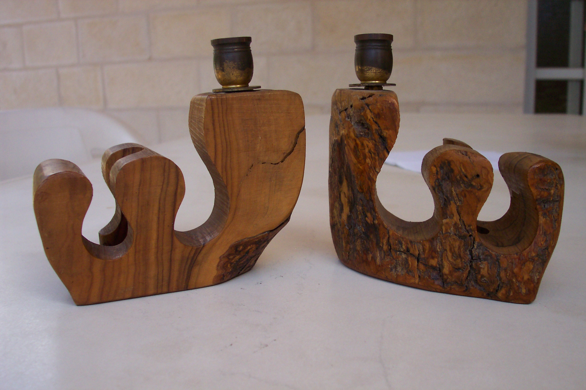 Wooden candlesticks for Shabbat candles